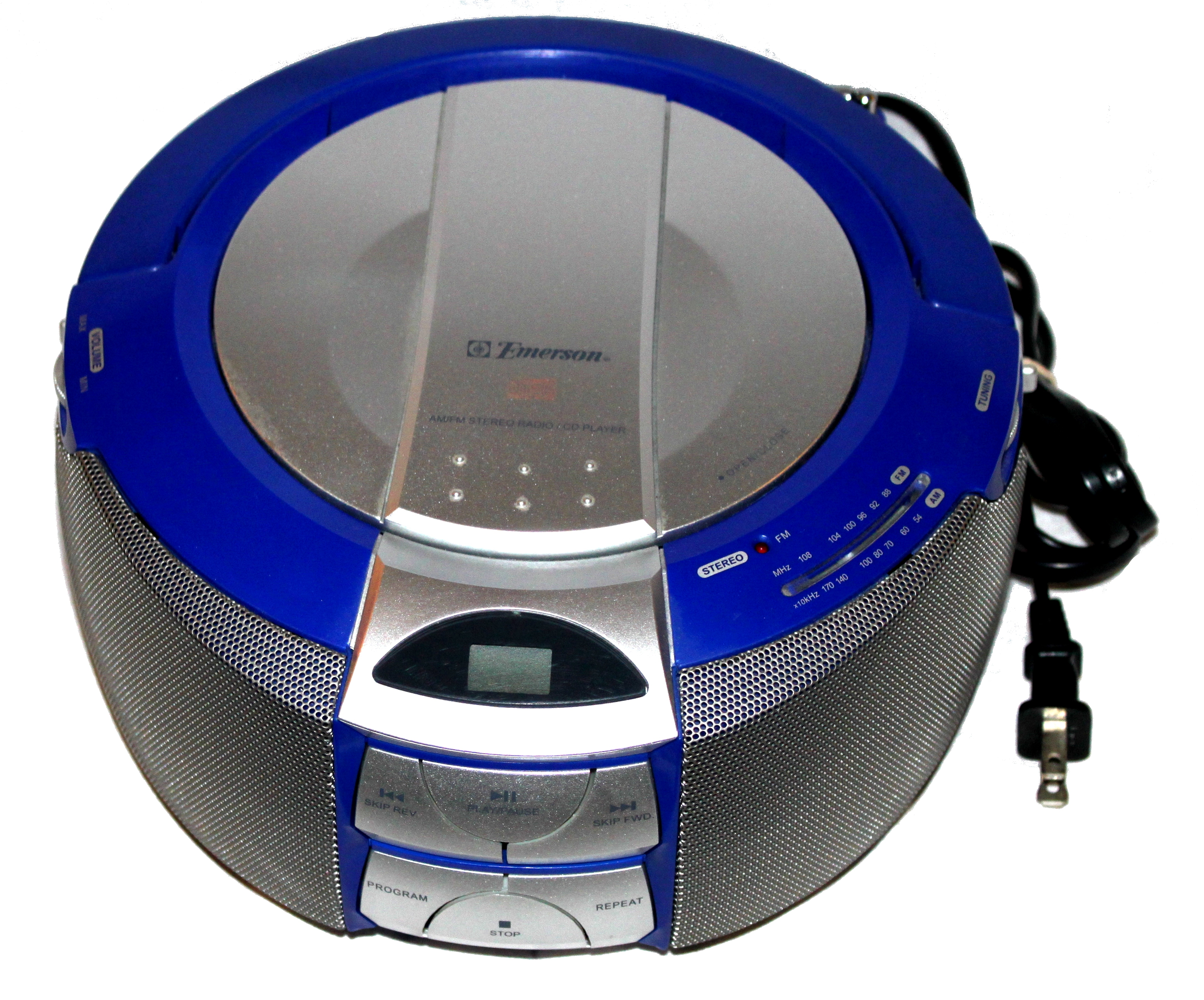 Emerson PD5202 portable AM/FM radio with CD player.